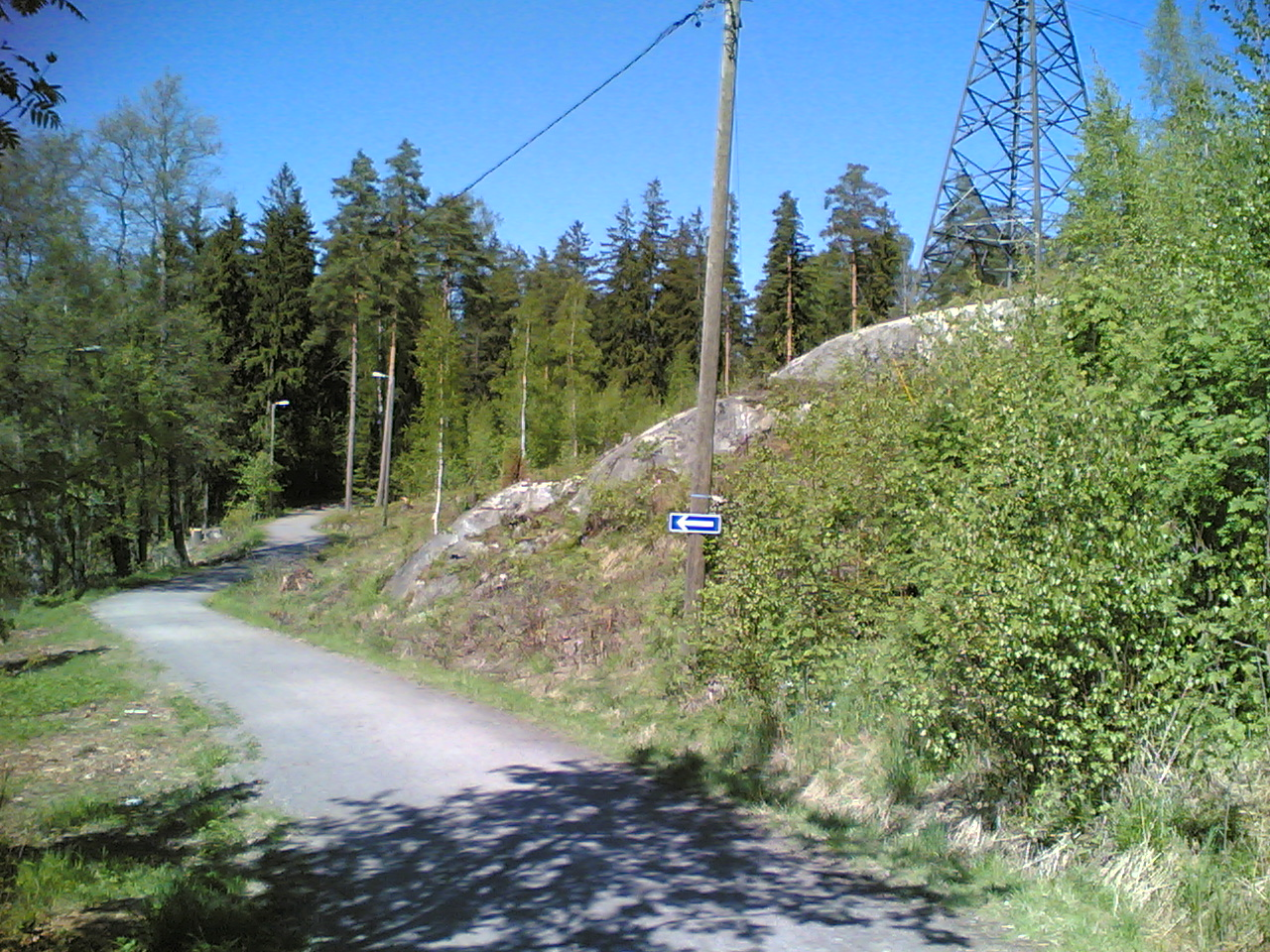 Mustavuori in Vuosaari, Helsinki, Finland